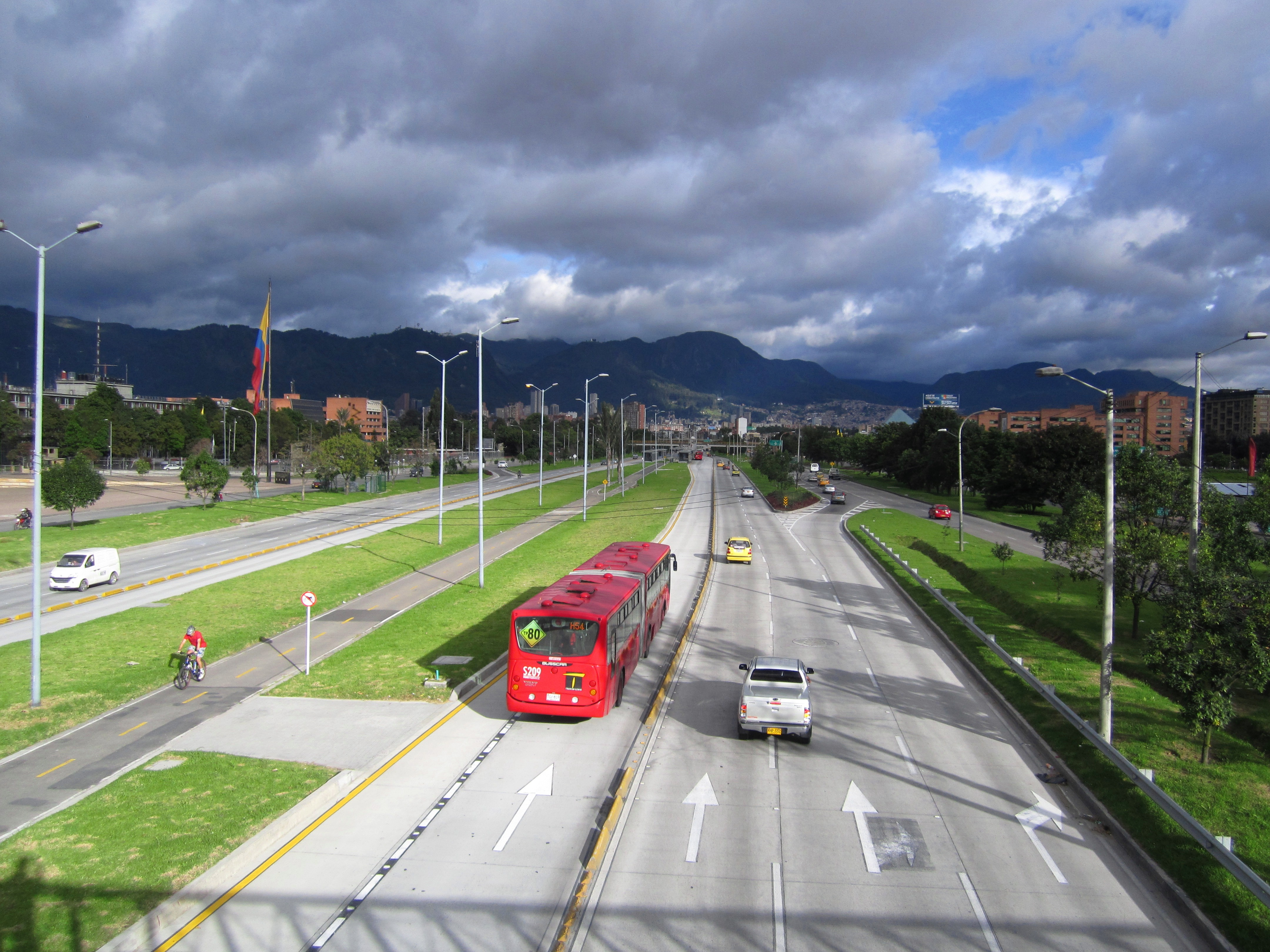 Bogotá